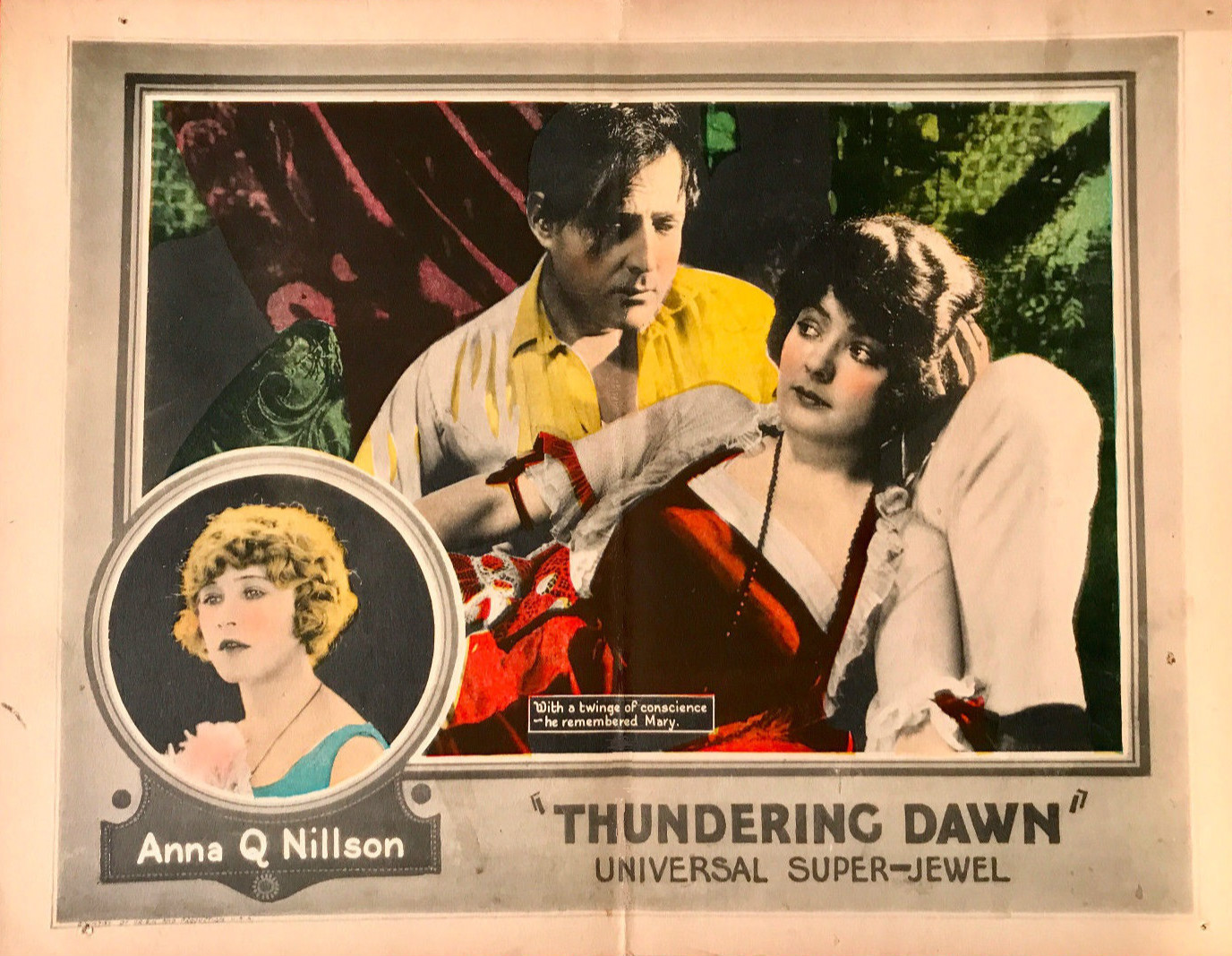 Lobby card for the American drama film Thundering Dawn (1923).